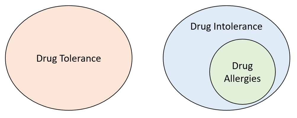 A Venn diagram of the definition of drug intolerance. Drug intolerance is separate from drug tolerance, but overlaps with drug allergies.